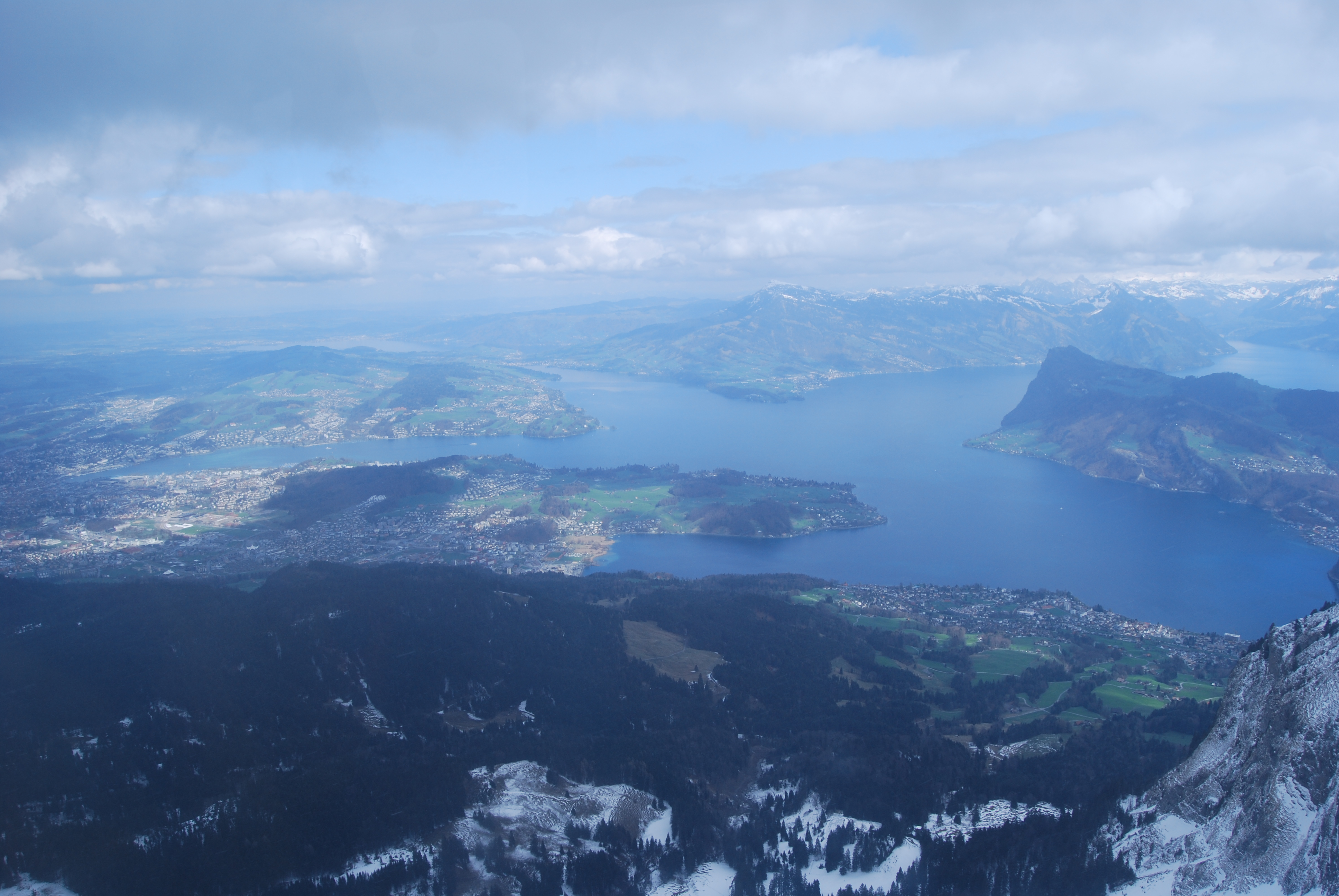 View to the Lake of Lucerne from Pilatus, Switzerland: At left in the picture Lucerne, in the middle Horw and at right Hergiswil NW.